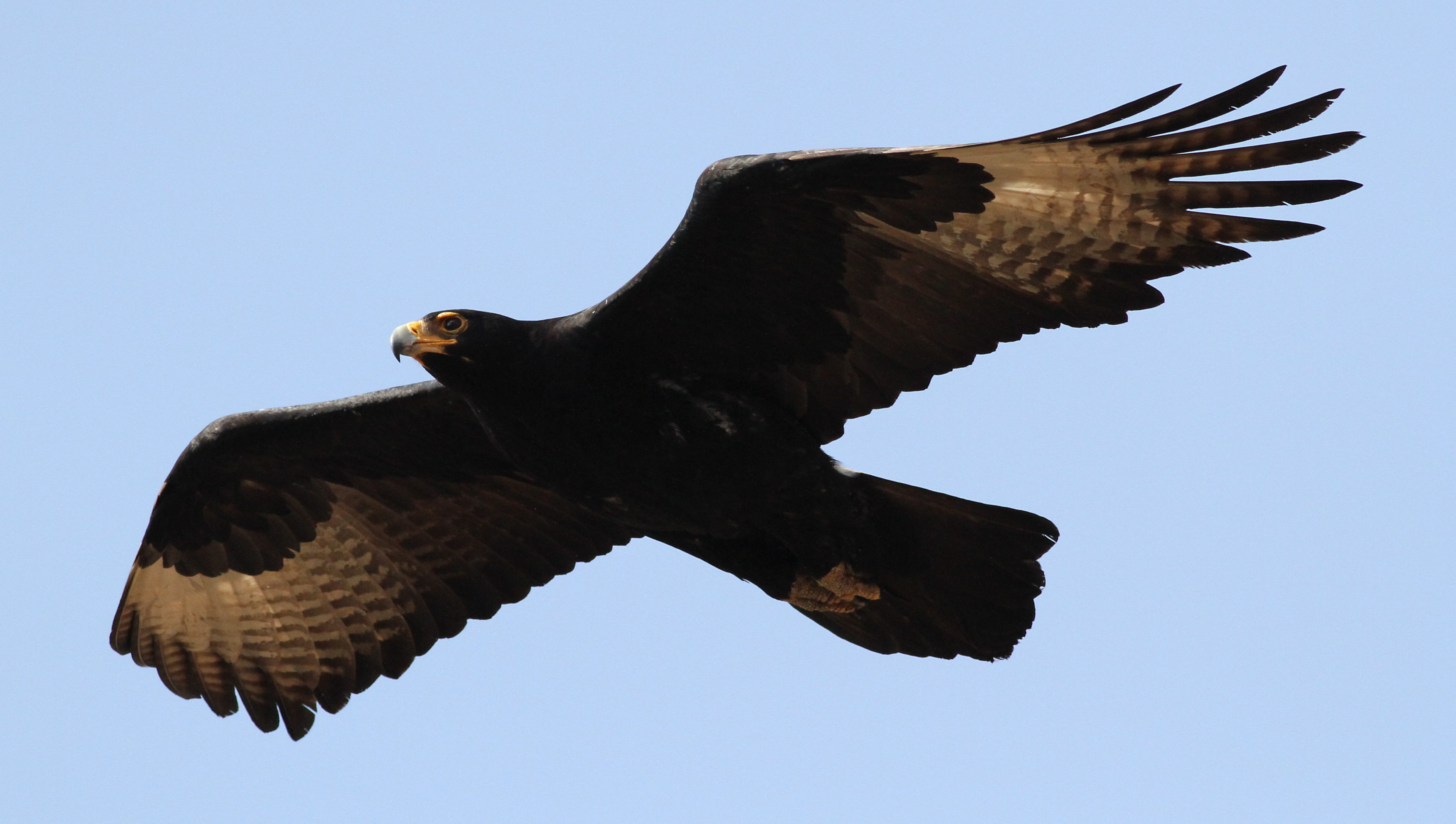 Verreaux's Eagle. Black Eagle, Aquila verreauxii, at Walter Sisulu National Botanical Garden, Gauteng, South Africa